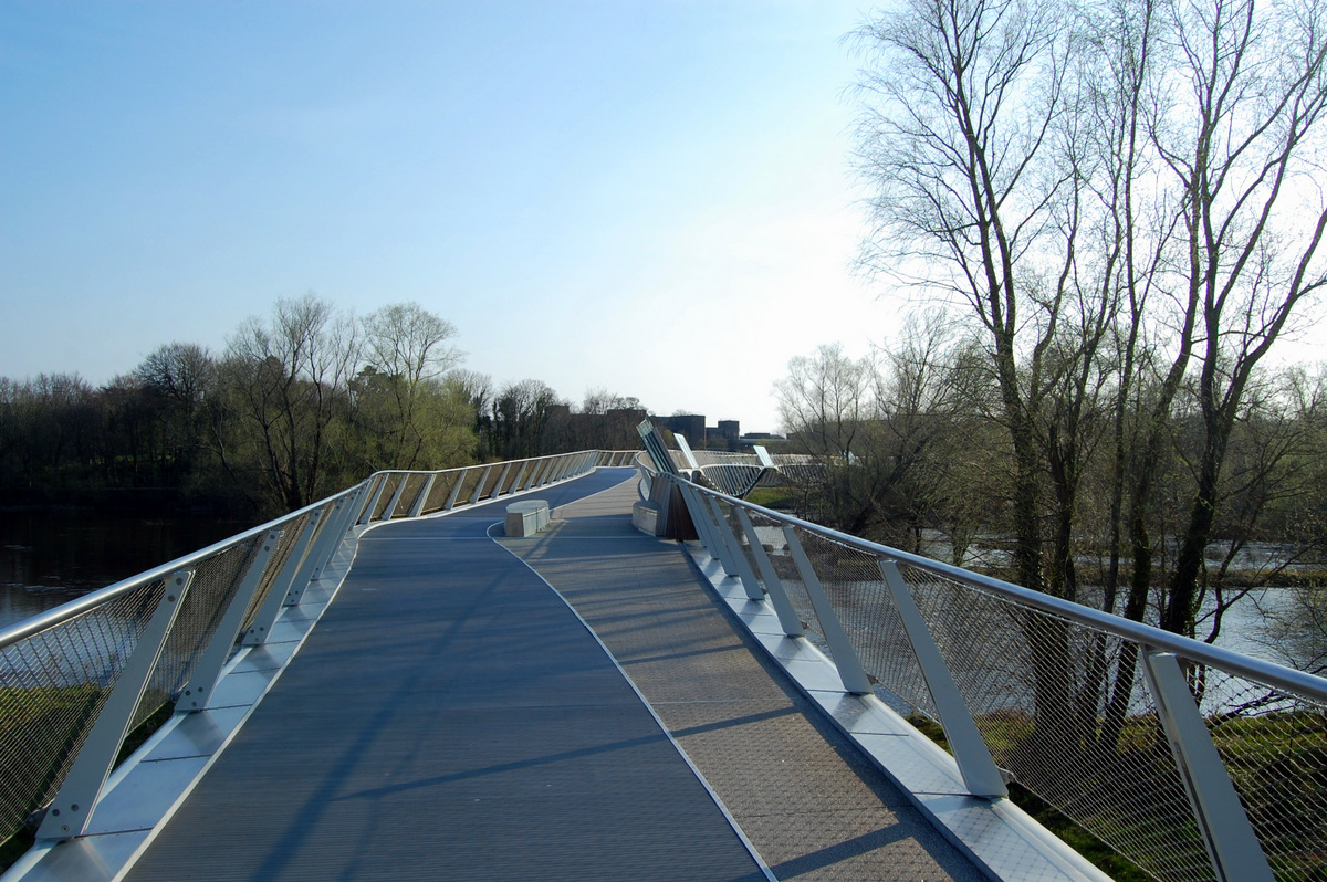 The Living Bridge – An Droichead Beo over the River Shannon on the University of Limerick campus in Ireland. It is the longest pedestrian bridge in Ireland.